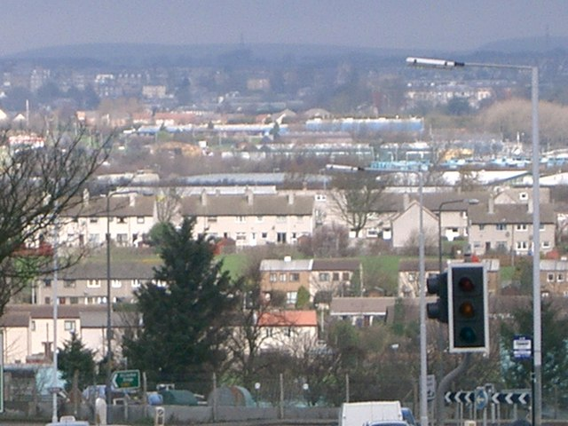 Rosyth Original description: Rosyth A view north towards Dunfermline.